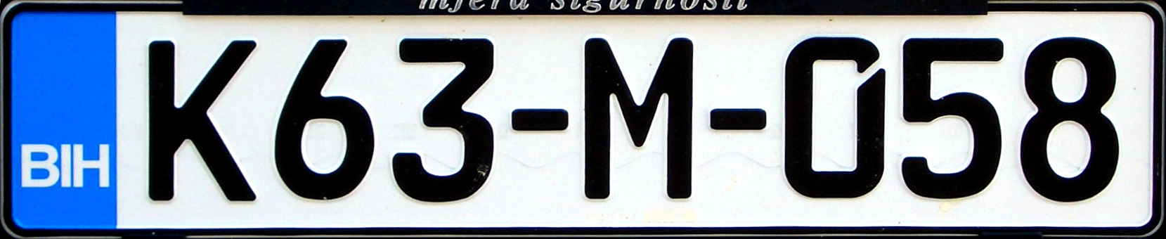 License plate from Bosnia and Herzegovina, new style since Septembre 28th, 2009